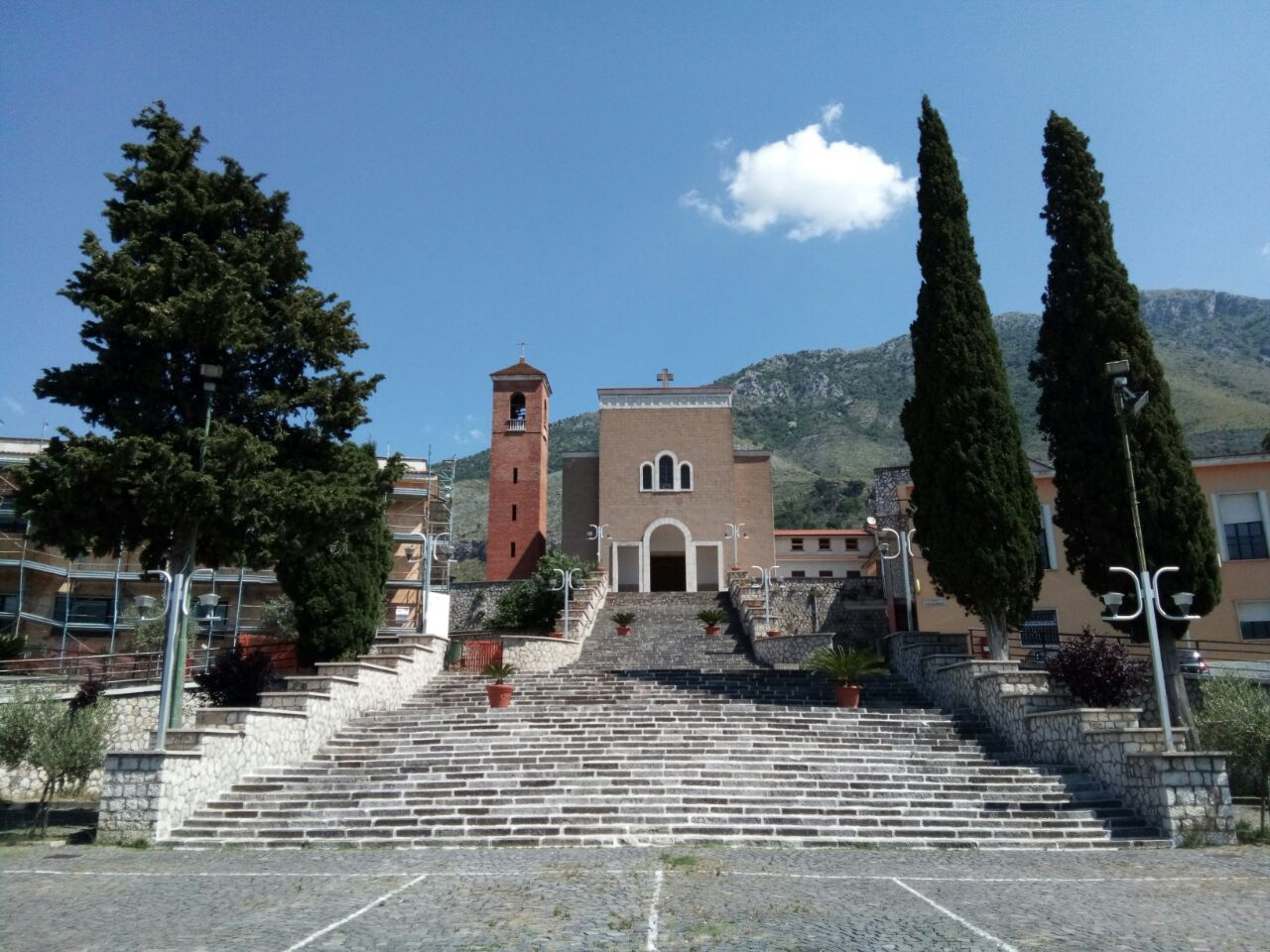 Piazza Risorgimento Square and San Nicola curch